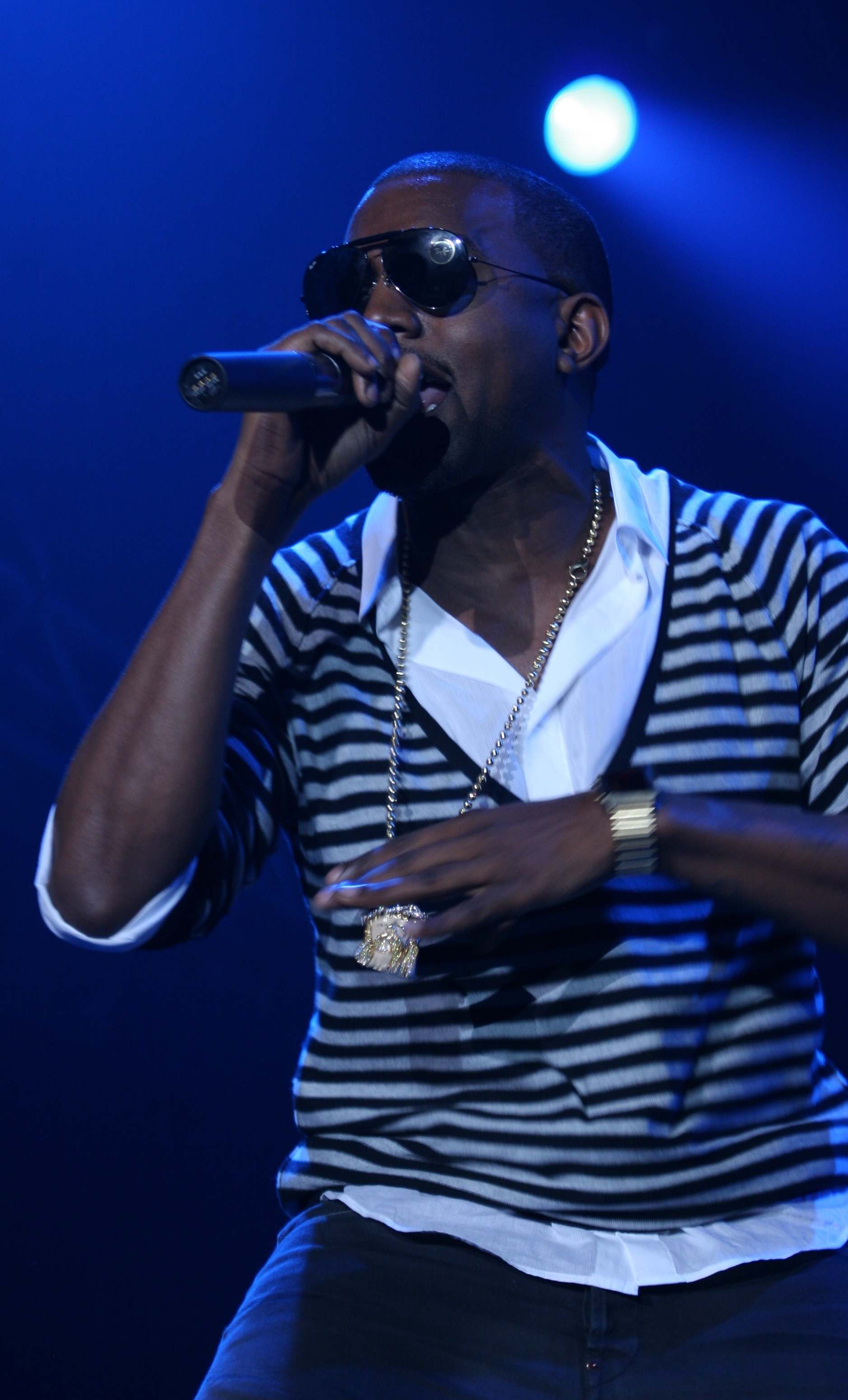 Kanye West performing at the North Sea Jazz Festival on July 16, 2006 in the Netherlands.